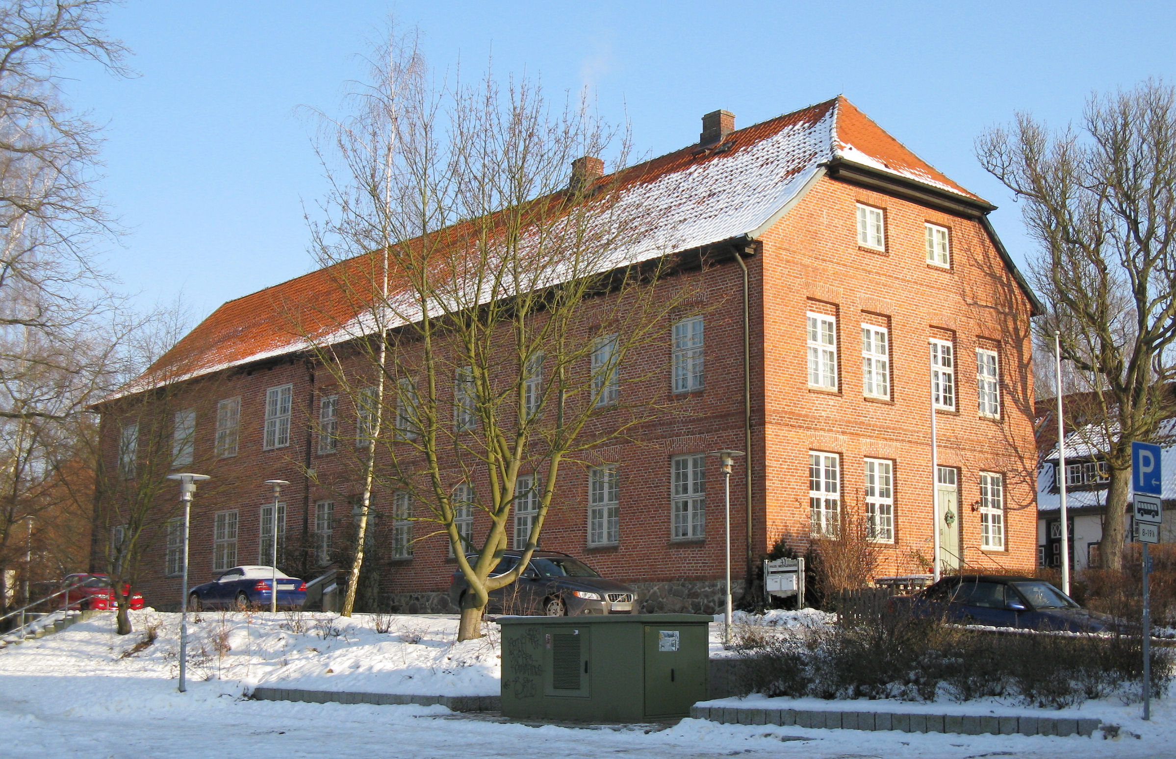 Haus Mecklenburg in Ratzeburg, district Herzogtum Lauenburg, Schleswig-Holstein, Germany